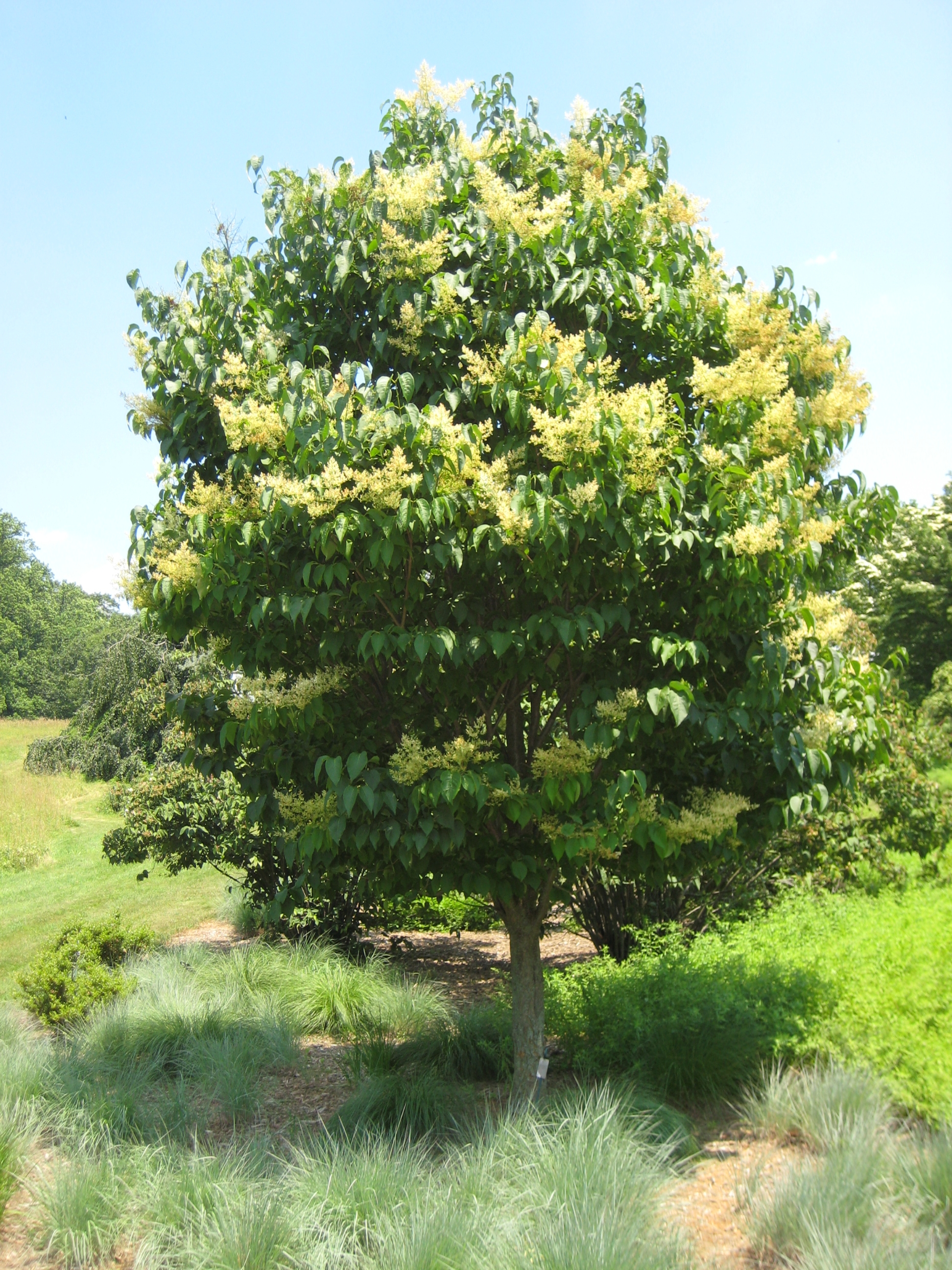 Japanese Amur lilac (Syringa reticulata) on the grounds of the Winterthur Country Estate Museum.